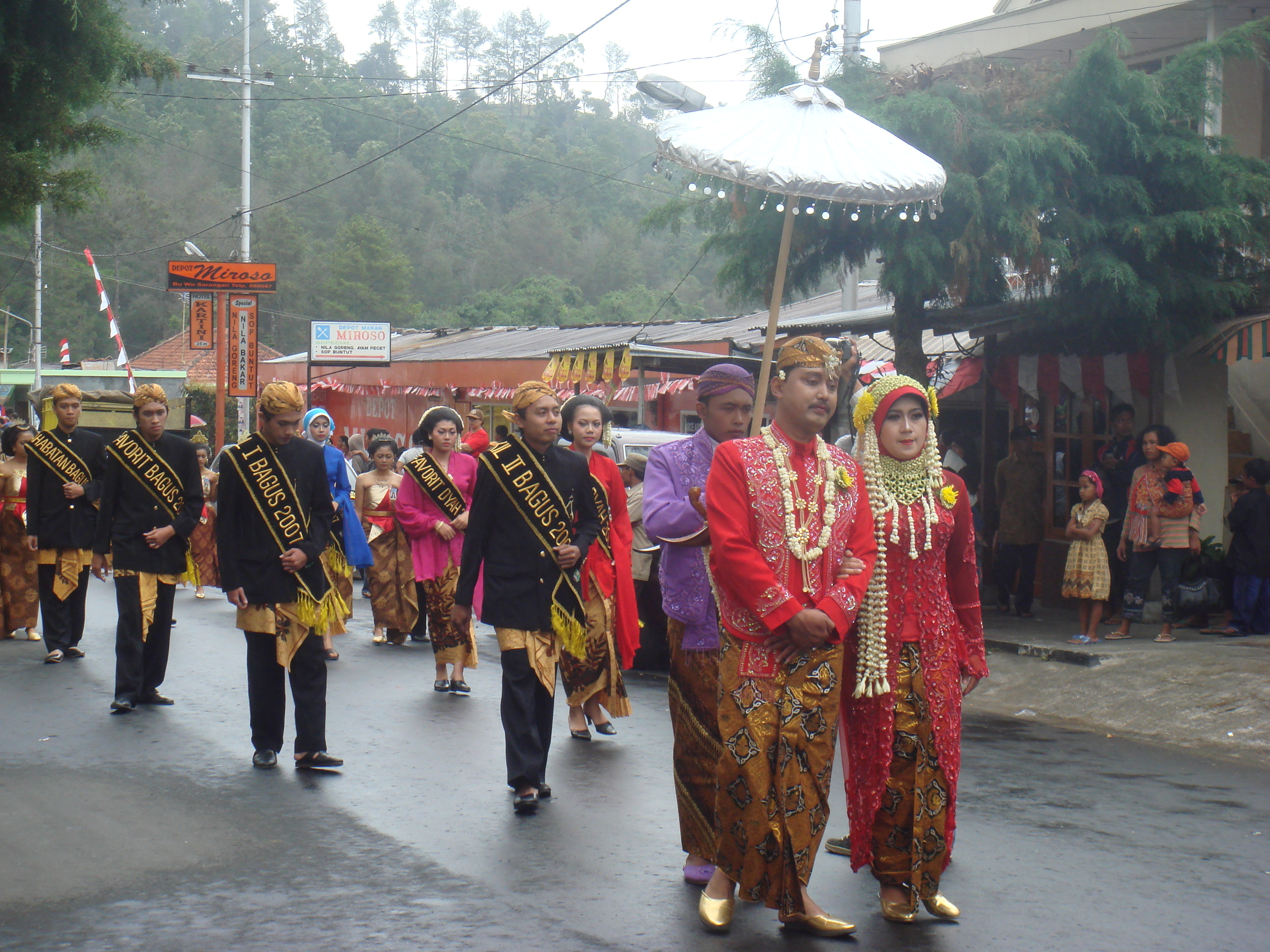 Labuh Sesaji adalah salah satu bentuk upacara adat masyarakat desa Sarangan Plaosan Magetan untuk menghormati sesepuh desa dengan memberikan sesaji berupa tumpeng gono gini.